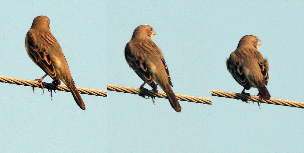 Red-headed Bunting Emberiza bruniceps in Kinnerasani Wildlife Sanctuary, Andhra Pradesh, India.